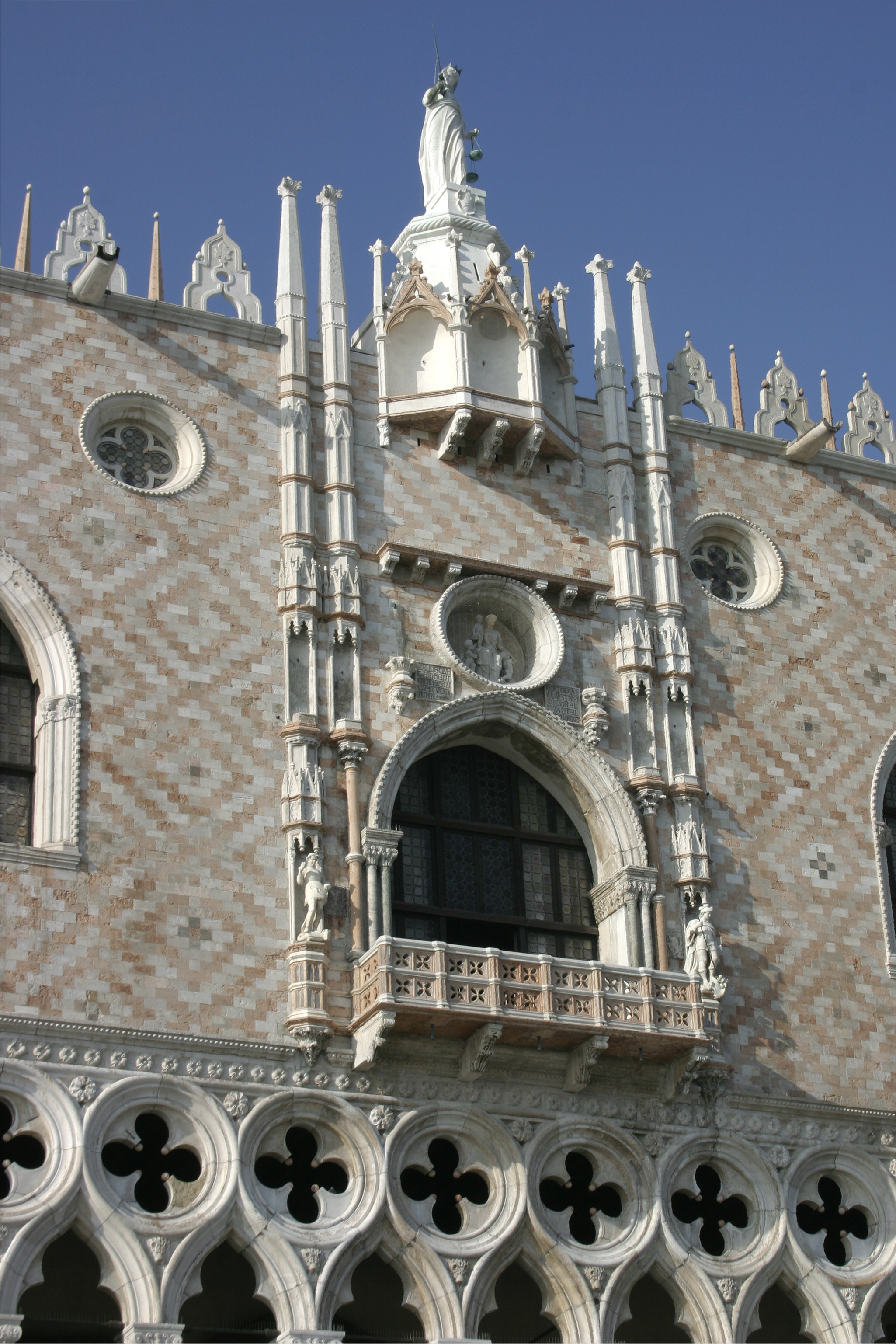 Venice – Doge’s Palace – Loggia on the Molo